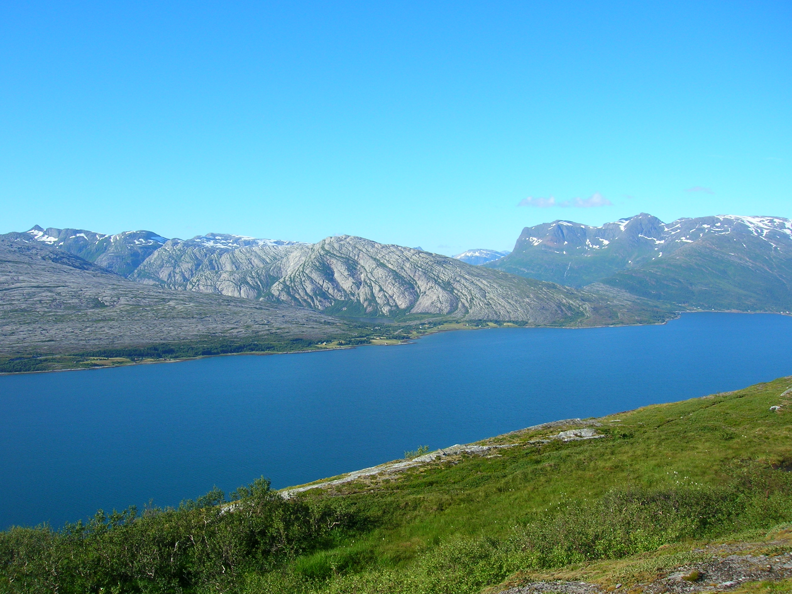 The fjord Nordsjona in Rana, seen from south between Nesna and Mo i Rana, Nordland, Norway. Photo July 14, 2007 with a Nikon Coolpix 5600 5,1 Megapixel camera.